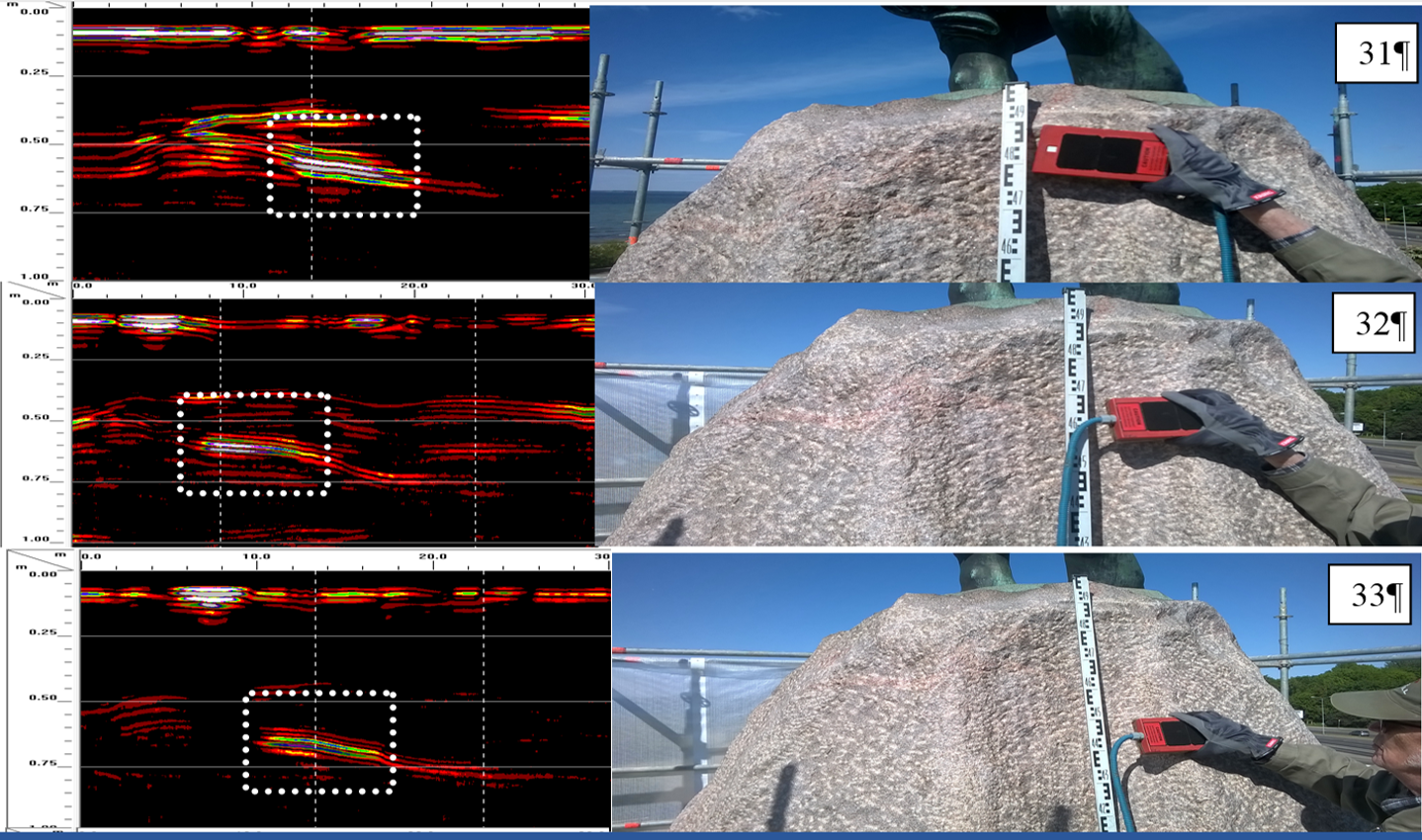 Russalka georadari uuringud